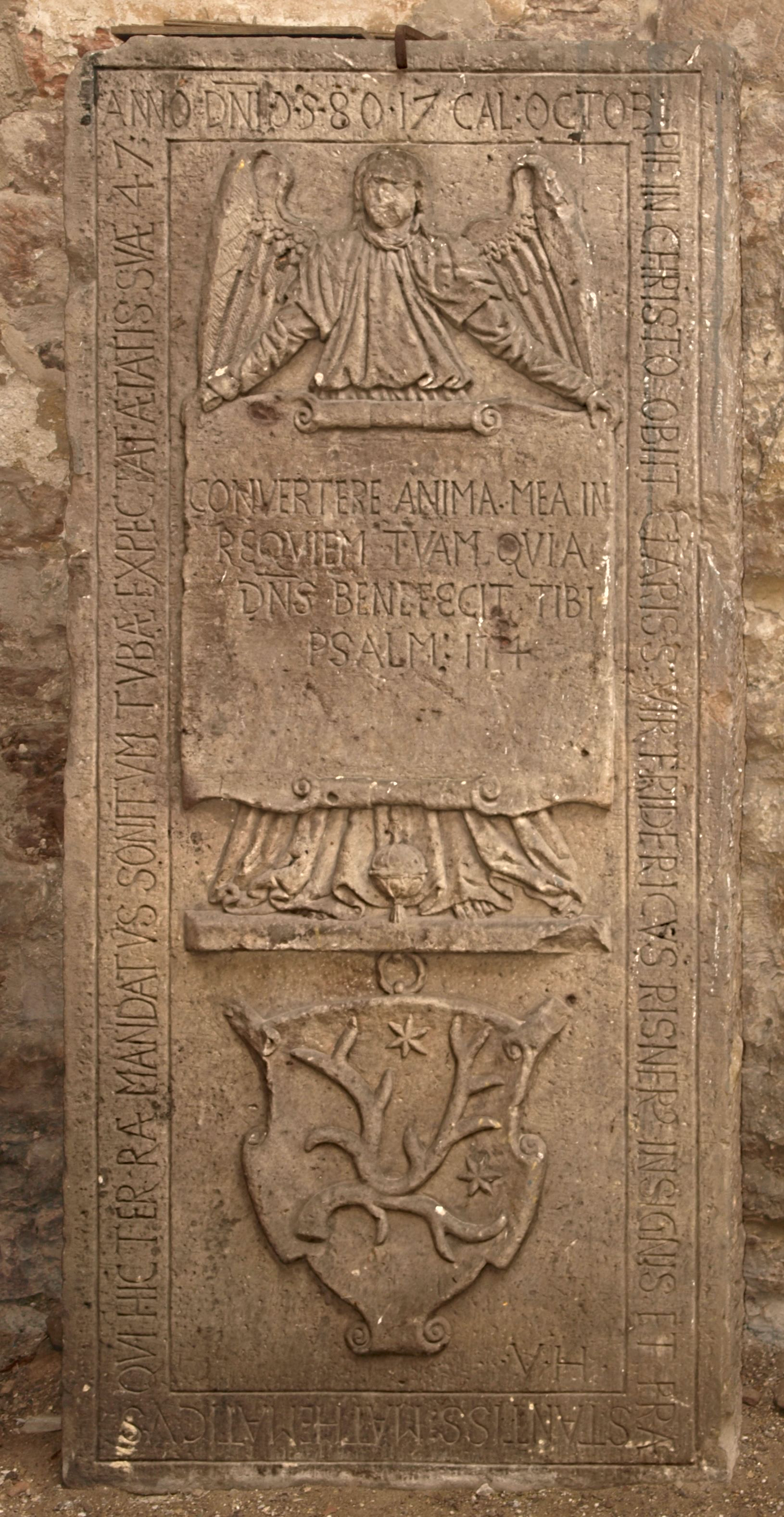 Gravestone of Friedrich Risner (* in Hersfeld; † 15. September 1580 in Hersfeld) in Bad Hersfeld Cathedral. The latin circumscription means: "Anno 1580. 17. Cal. Octob. pie in Christo obiit clariss. vir Fridericus Risner insignis et praestantissimus Mathematicus qui hic terrae mandatus sonitum tubae expectat aetatis suae 47." English translation is: "In 1580, September 15th, died in Christ at the age of 47, the well famous Friedrich Risner, an outstanding, excellent mathematician, who passed to soil here, will expect the sound of trumpet."